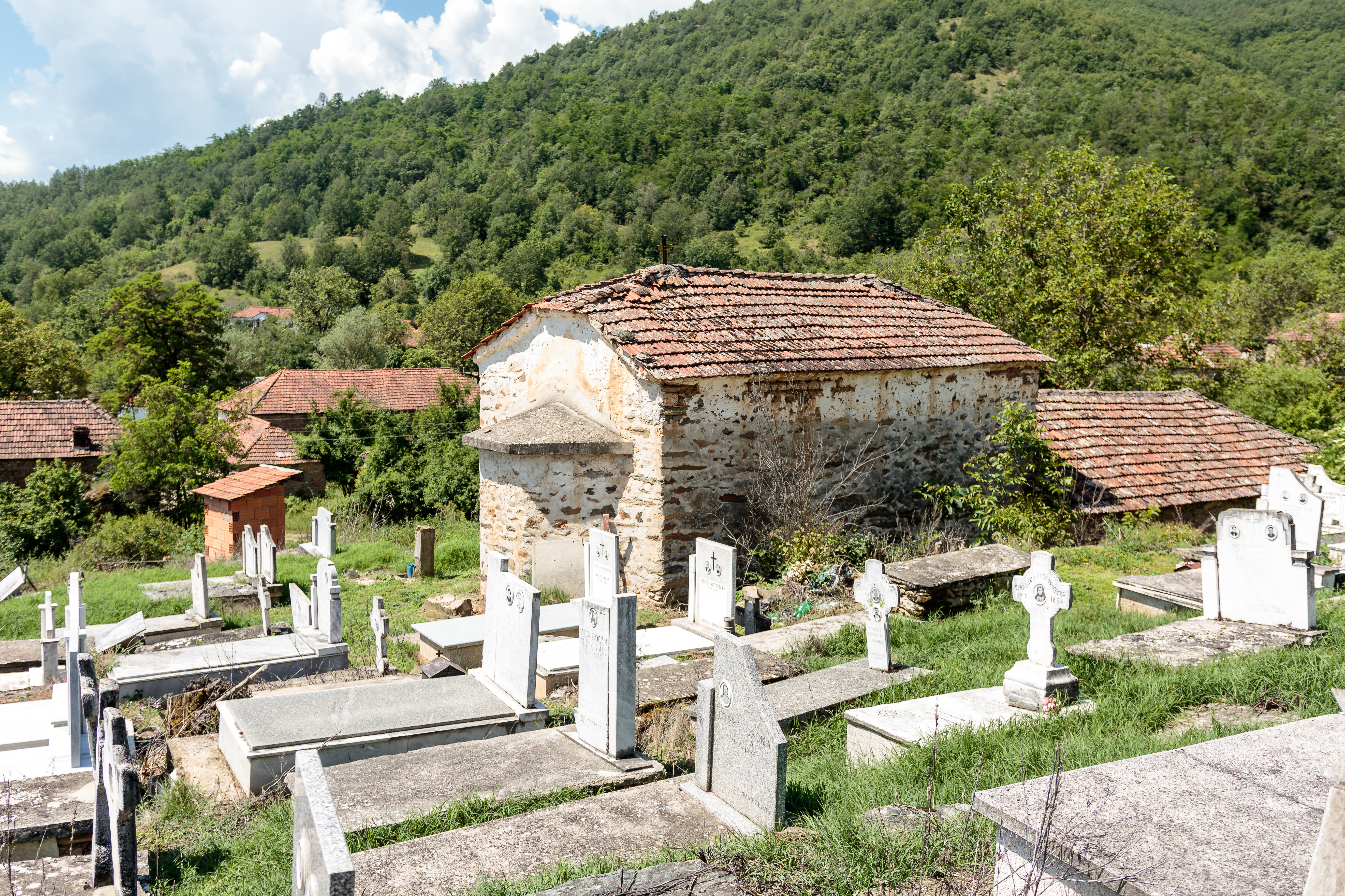 Cemetery in the St. Demetrious Church in the village Rakitnica